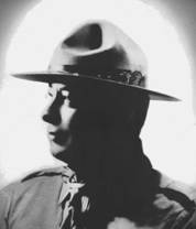 Álvaro de Melo Machado - scout uniform